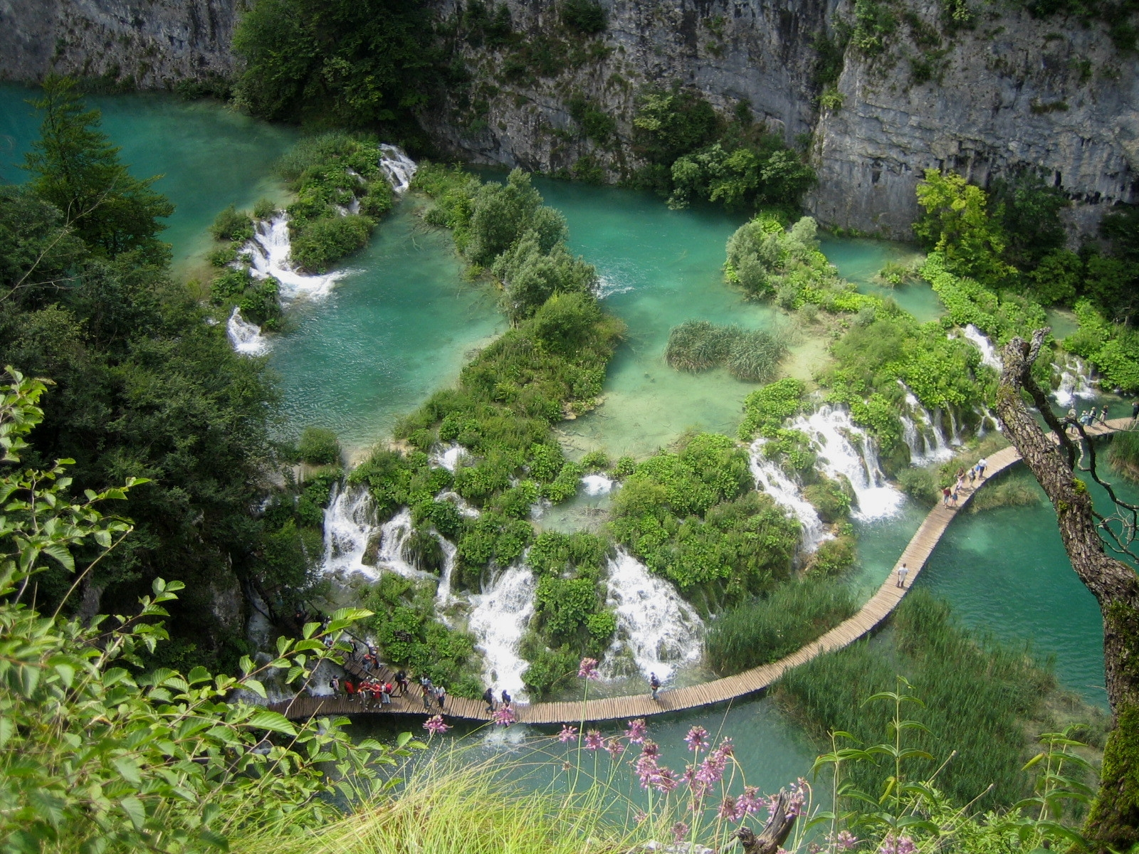 Plitvice Lakes National Park, Croatia